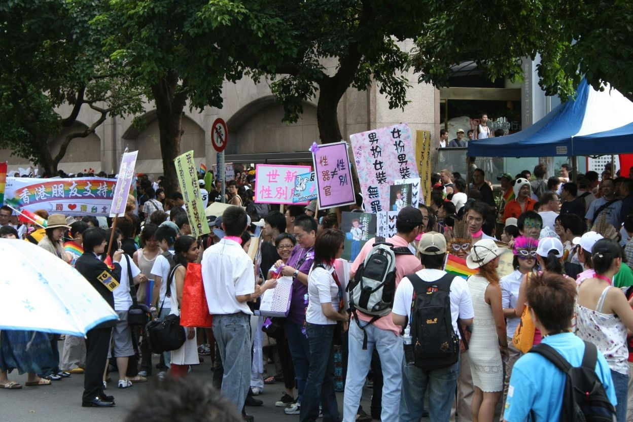 Taiwan Pride 2005 -- banners Lots of banners before set out. 2005-10-01 14:05